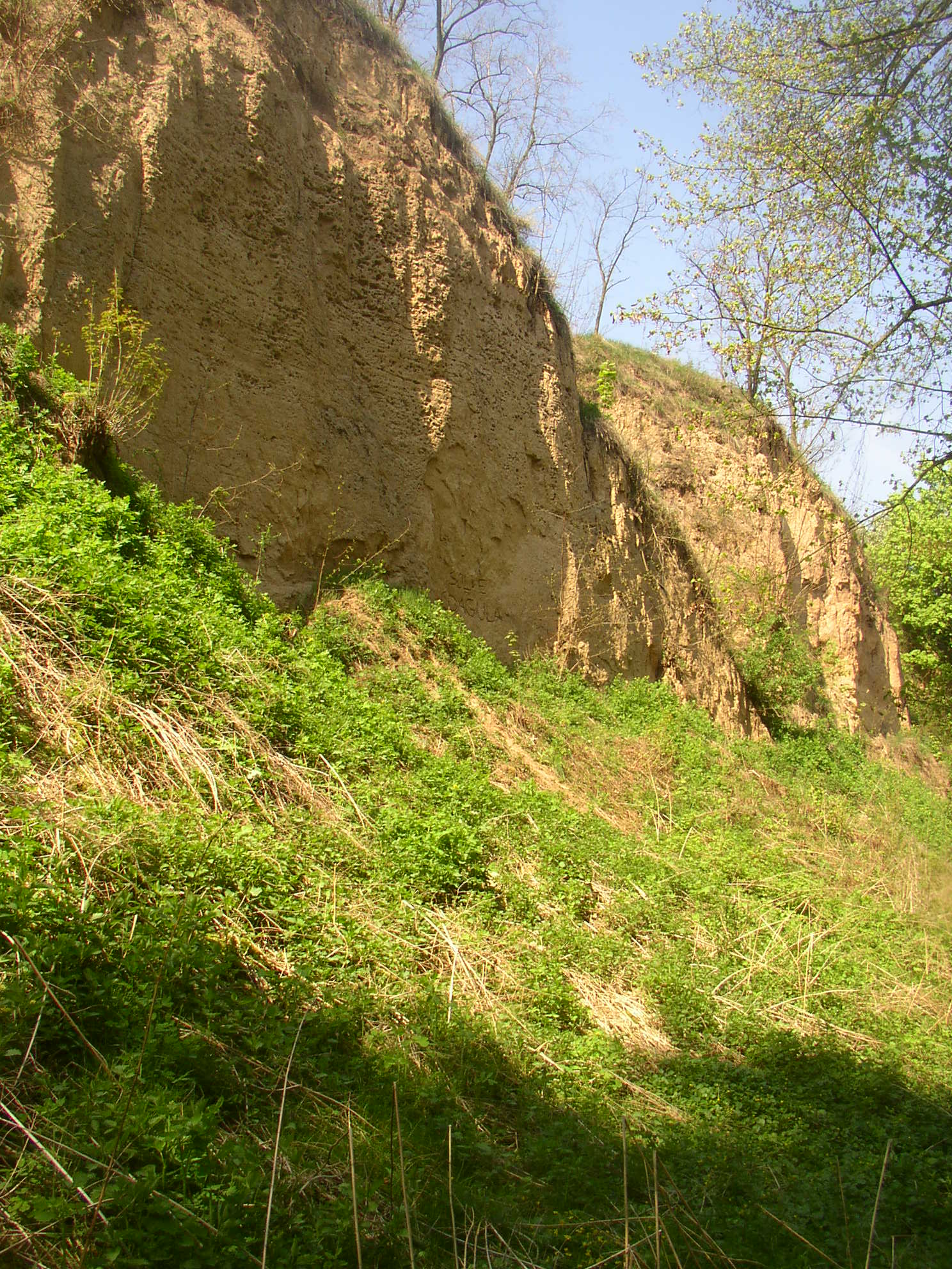 Loess Gully near Zeměchy natural monument, Zeměchy, part of Kralupy nad Vltavou town, Mělník District, Czech Republic. Wall of the gully as seen from bottom.